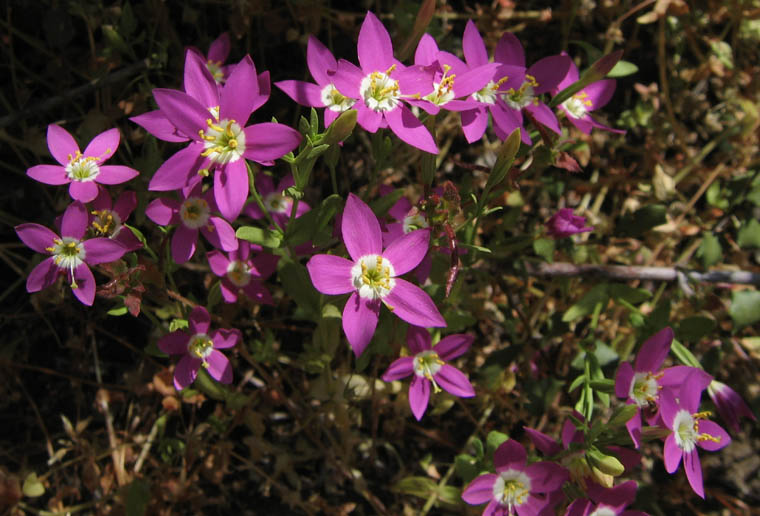 Zeltnera venusta, syn: Centaurium venustum — Charming centaury, Canchalagua. Taken on the Medea Creek Trail at Paramount Ranch Park — Santa Monica Mountains National Recreation Area, California. NPS photo, no copyright.